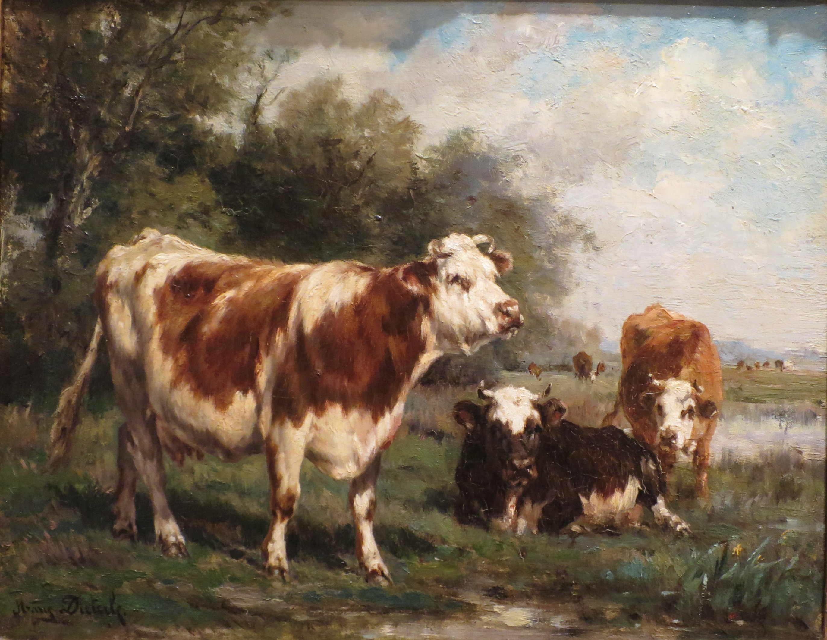 Painting of cattle by Marie Dieterlé, private collection